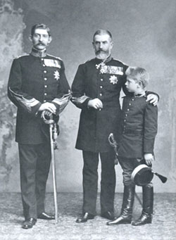 Carol I, Ferdinand I and Carol II, Romanian kings, circa 1900.